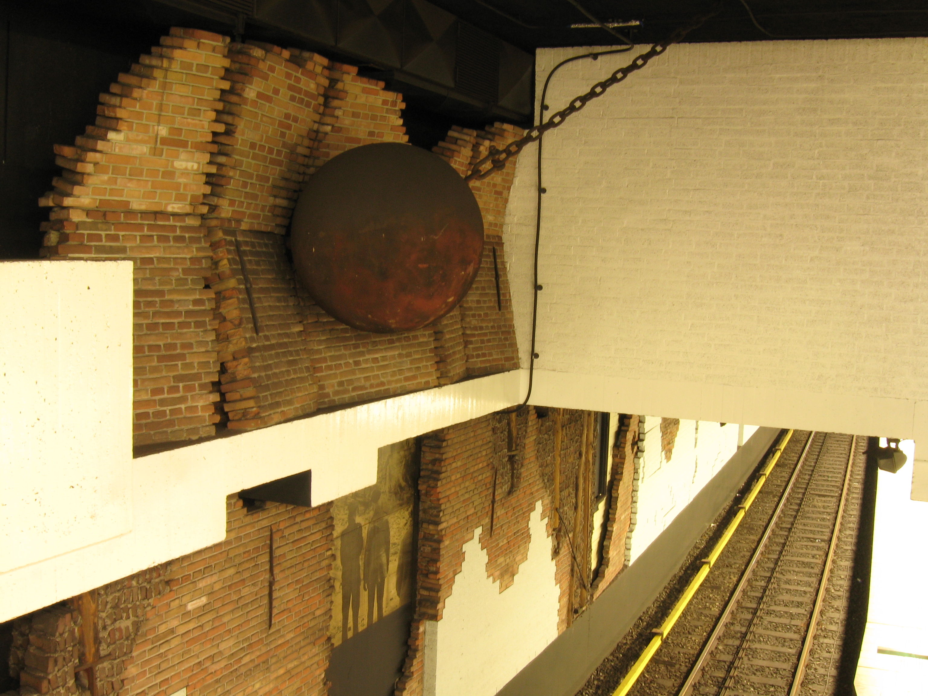 View of the wall decorations at Nieuwmarkt Metro Station in Amsterdam. The breaking wall is probably symbolic of the restructuring plans to make way for a metro and highways. Riots in 1975 led to cancellation of the highway, however, the metro station was constructed.